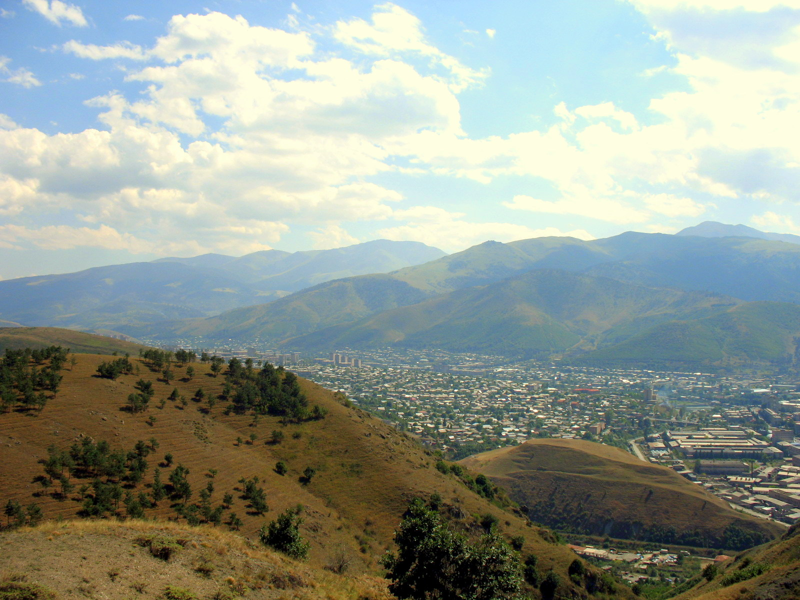 A Vista view of Vanadzor from nearby mountains